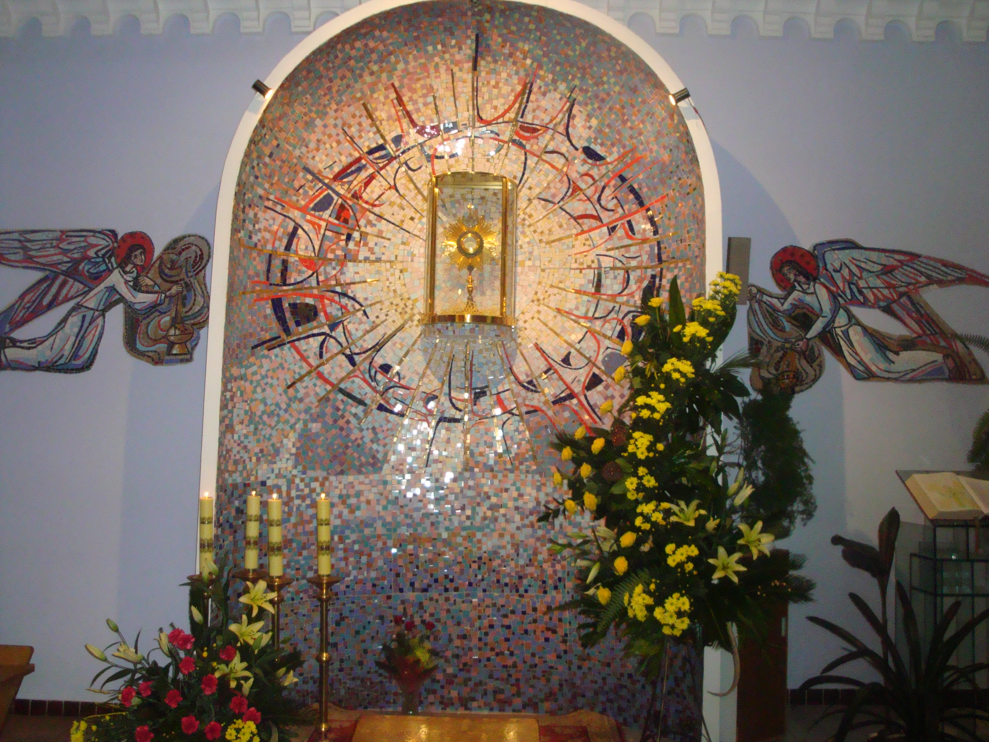 Kościół Matki Bożej Nieustającej Pomocy w Tarnobrzegu-Serbinowie